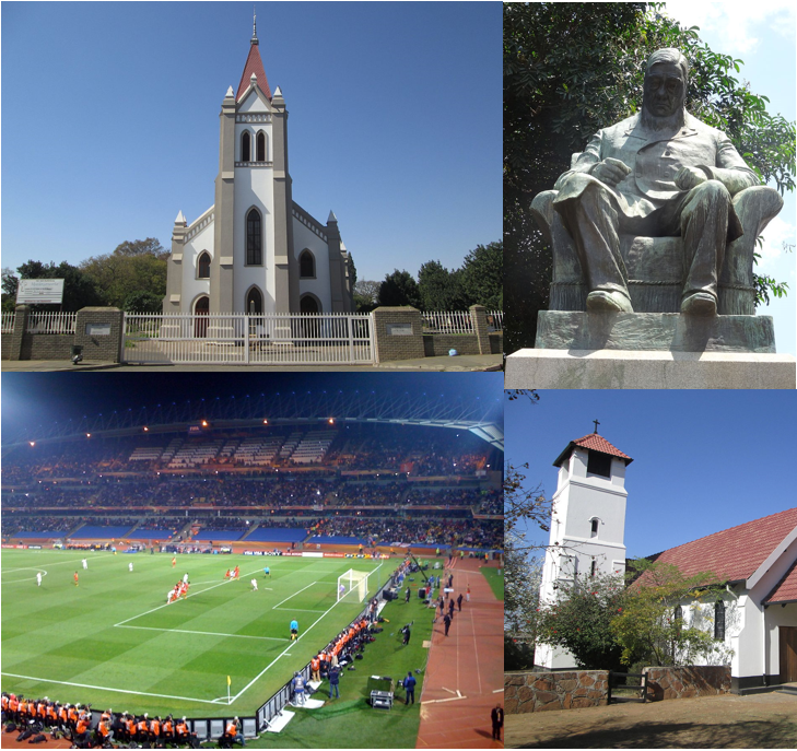 From top left clockwise: Dutch Reformed Church, Statue of Paul Kruger, Old Anglican Church, Royal Bafokeng Stadium